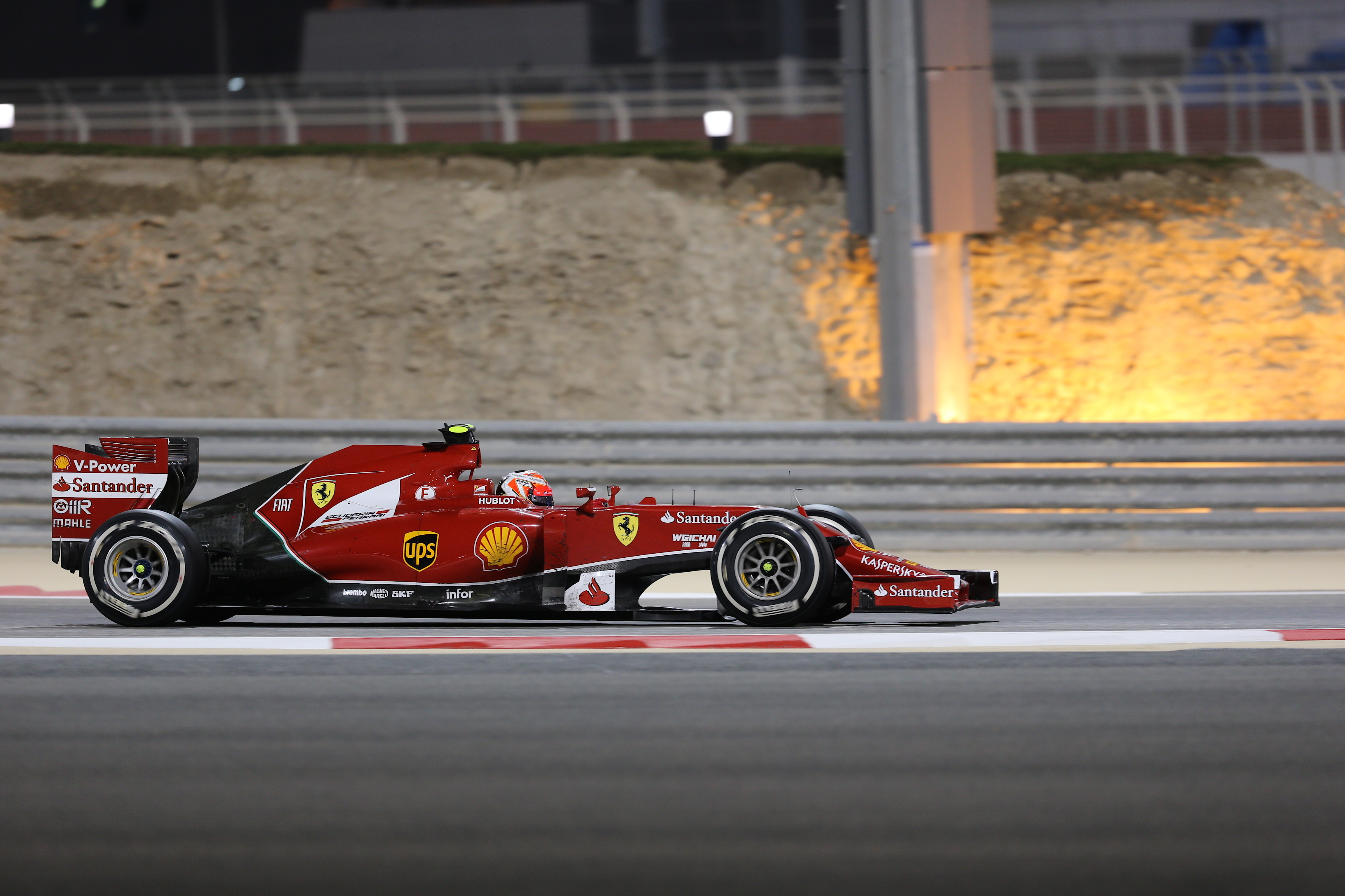 Kimi Räikkönen on Ferrari F14 T at the 2014 Bahrain Grand Prix